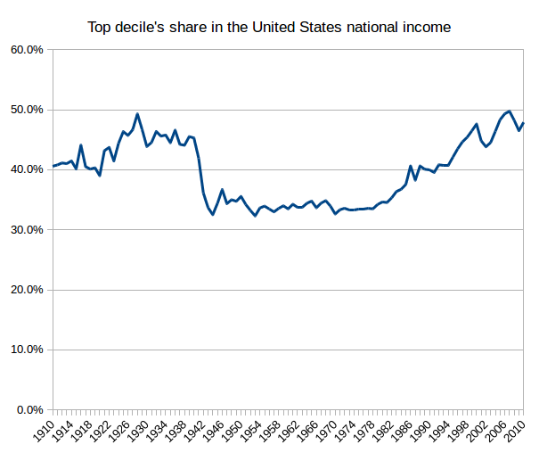 Top decile share in the US national income, 1910-2010. Based on Table TI.1 of the supplement to Thomas Piketty's Capital in the Twenty-First Century, [1].